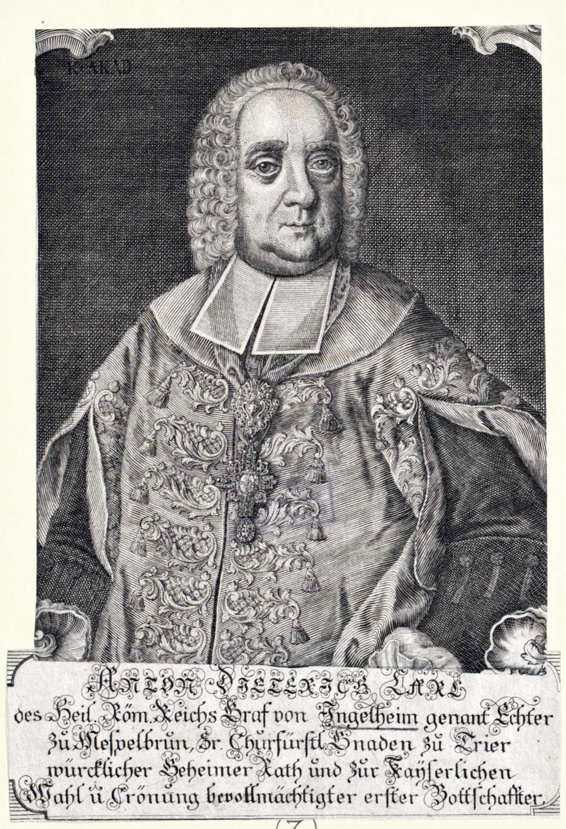 Anton Dietrich Carl von Ingelheim (1690-1750) Chorbischof und kurfürstlicher Statthalter im Bistum Trier